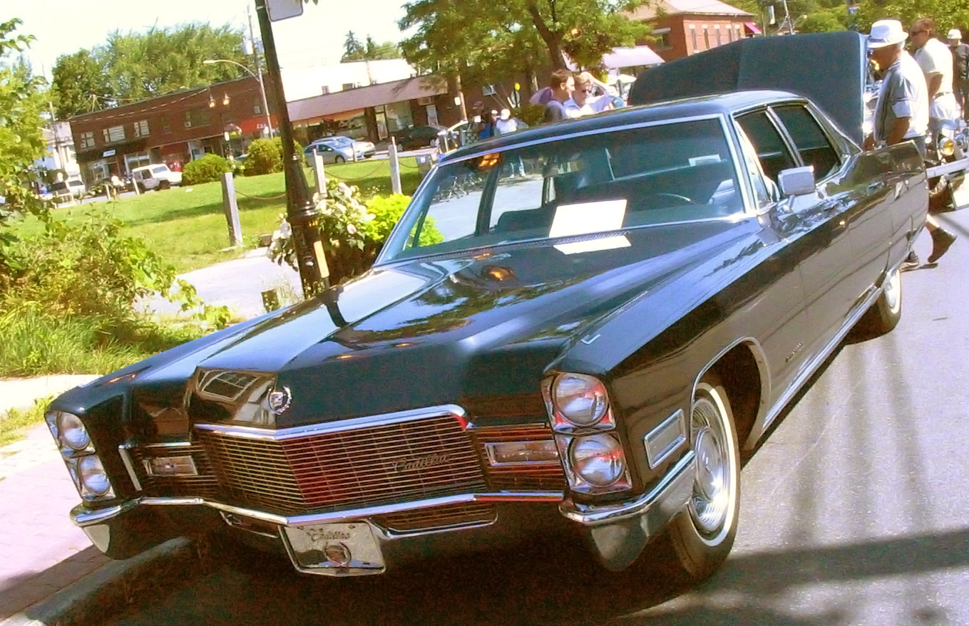 1968 Cadillac Fleetwood photographed in Pointe-Claire, Quebec, Canada at the Auto classique Pointe-Claire 2011.